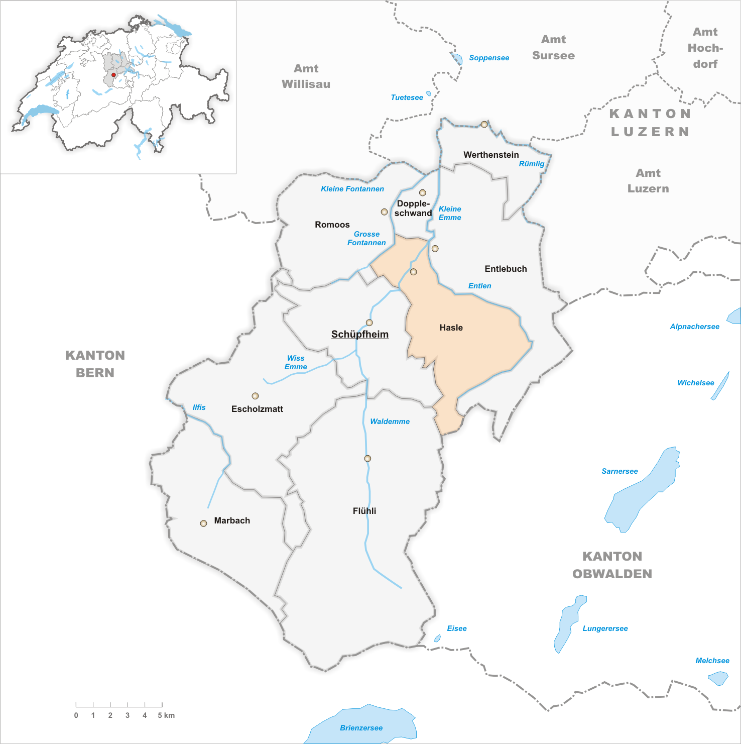 Municipality Hasle